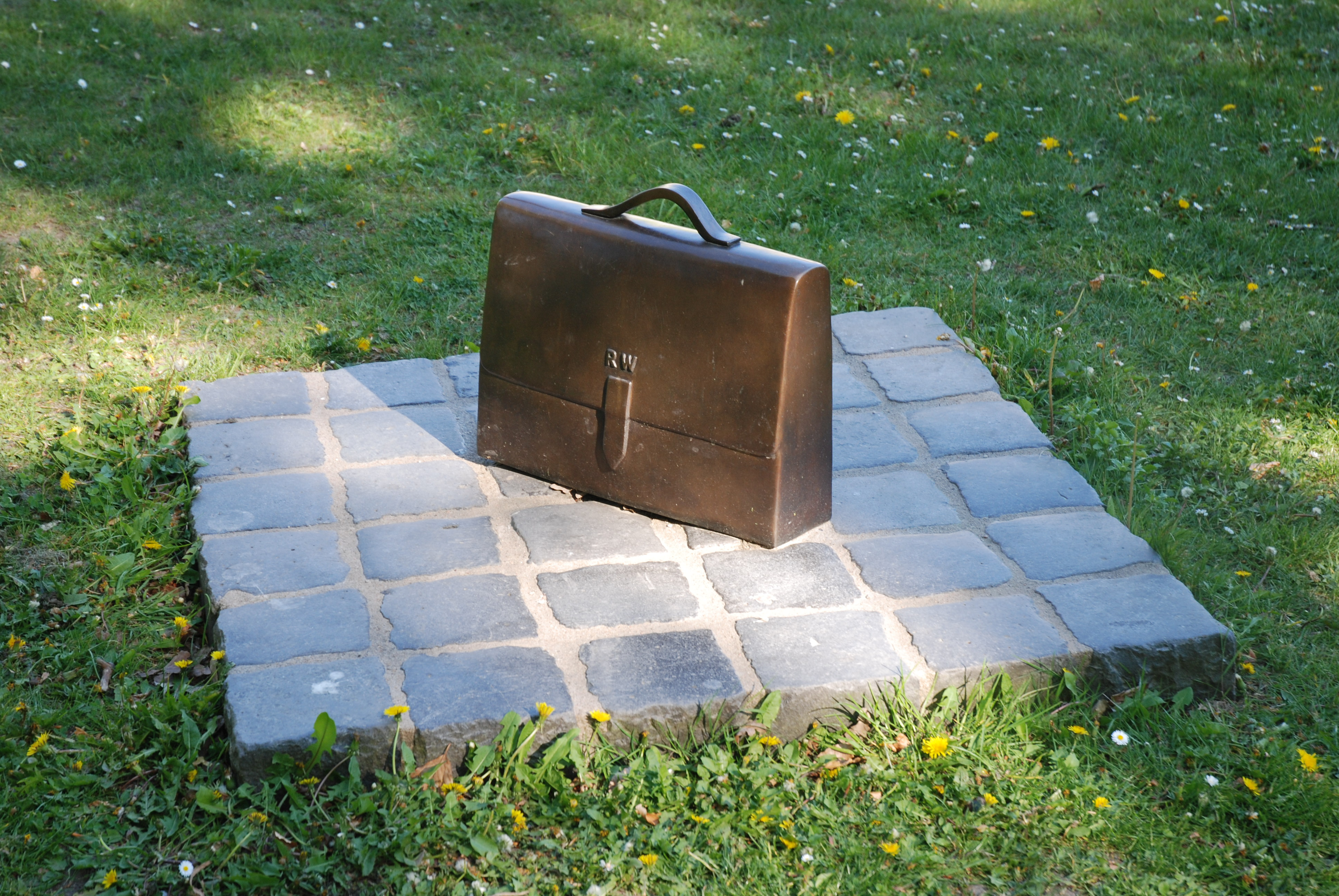 Ulla Kraitz´ R.W., part of monument to the memory of Raoul Wallenberg, outside Skissernas Museum in Lund, Sweden